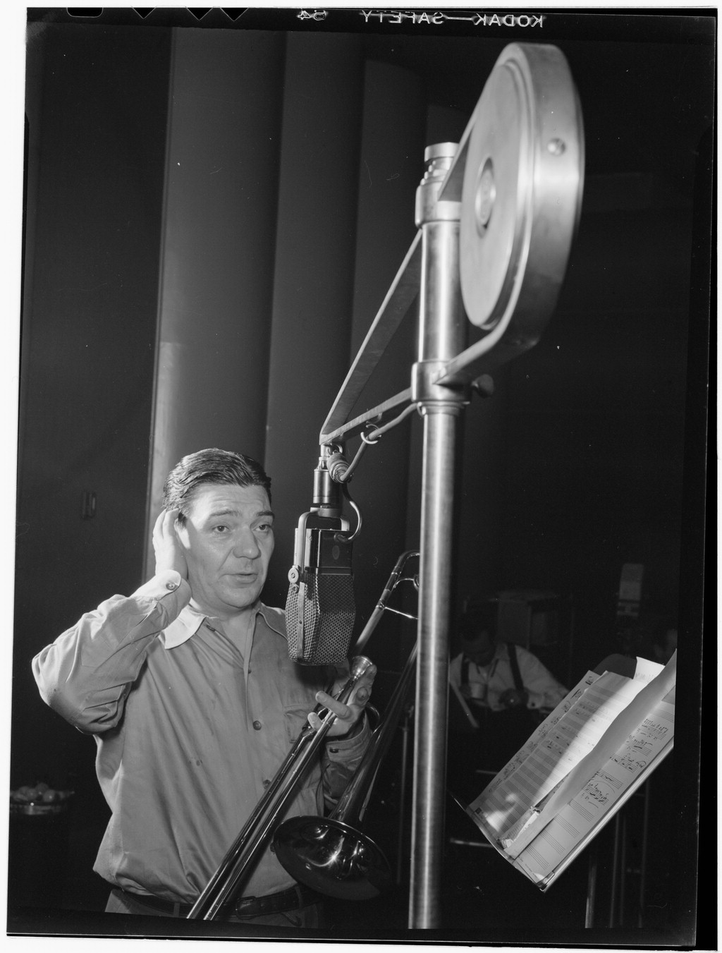 Jack Teagarden, Victor, studios, New York